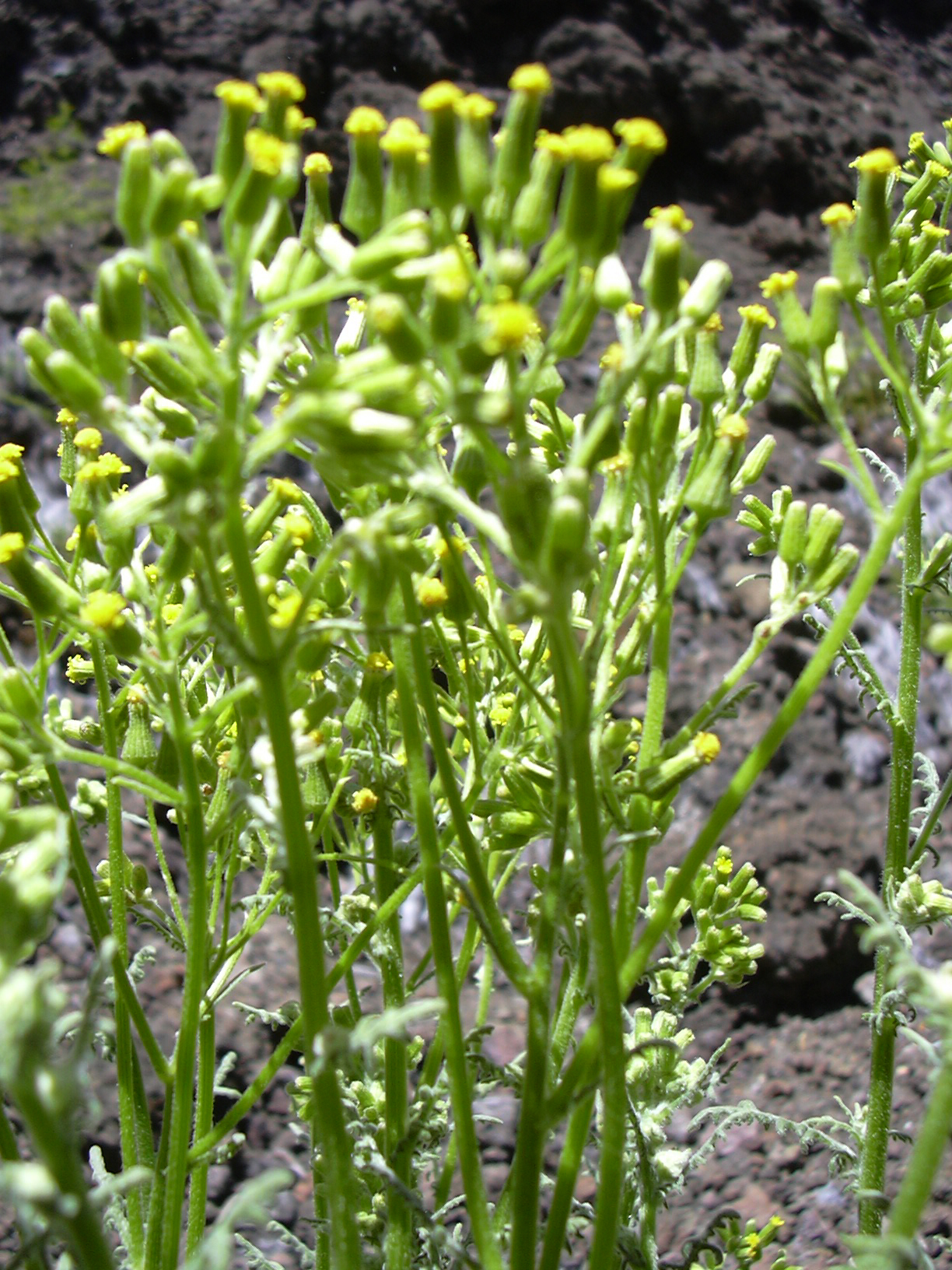 Senecio sylvaticus (flowers). Location: Maui, edge of red flow Haleakala National Park